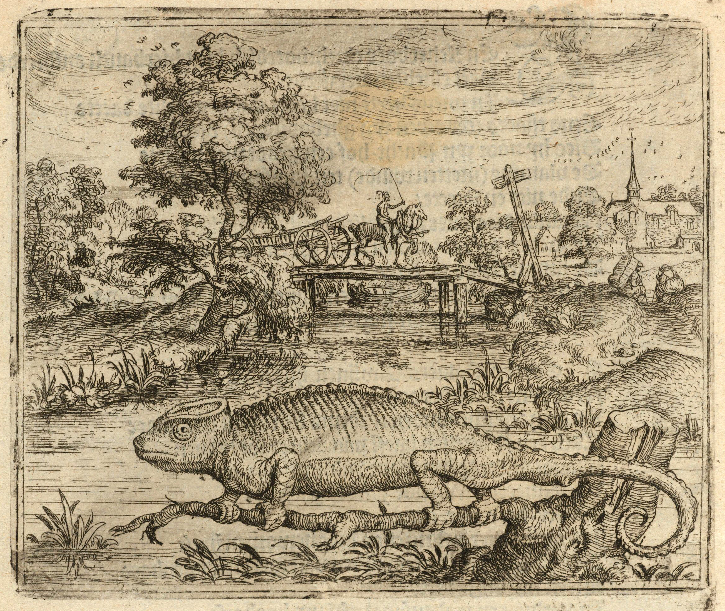 Chameleon illustration from page 72 of De vvarachtighe fabvlen der dieren, 1567, by Edewaerd De Dene (1505-1578). Typ 530.67.124, Houghton Library, Harvard University